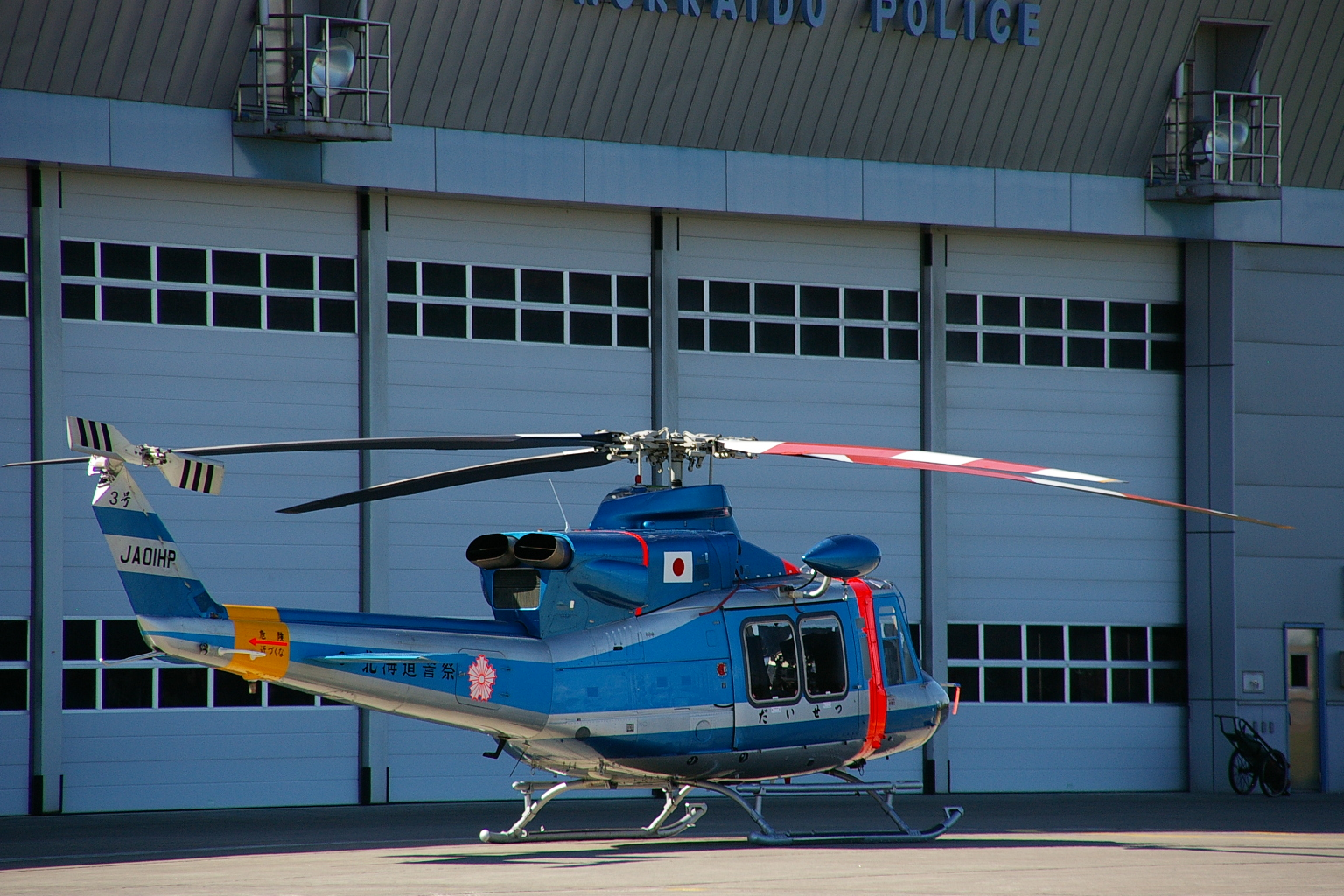 Bell 412EP Hokkaido police Daisetsu 3.